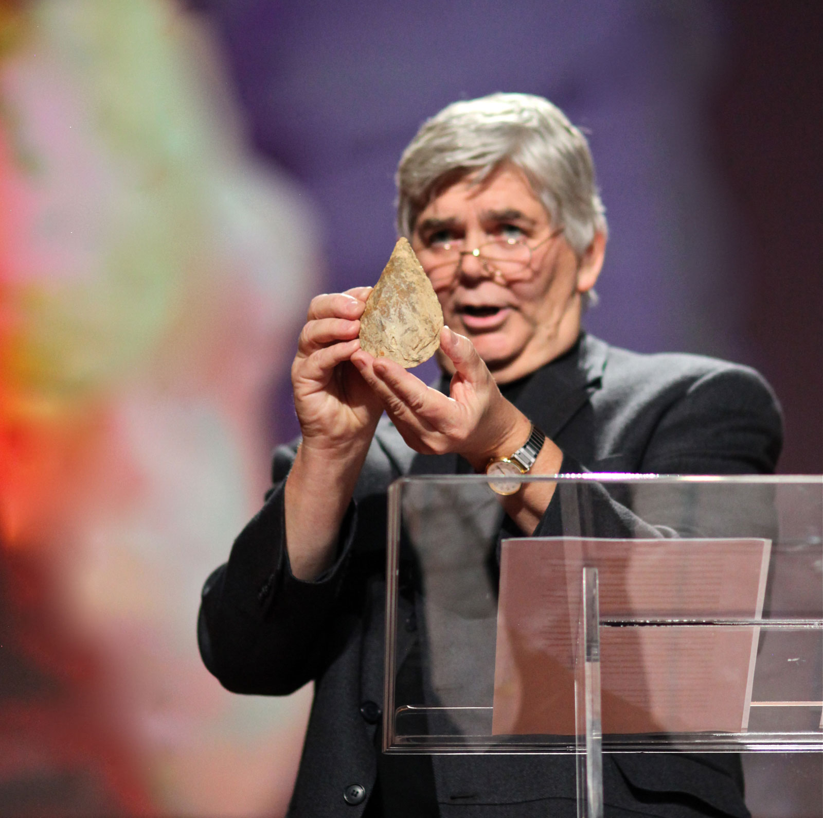 Denis Dutton with Acheulean hand-axe at the TED Conference, Long Beach, February 2010